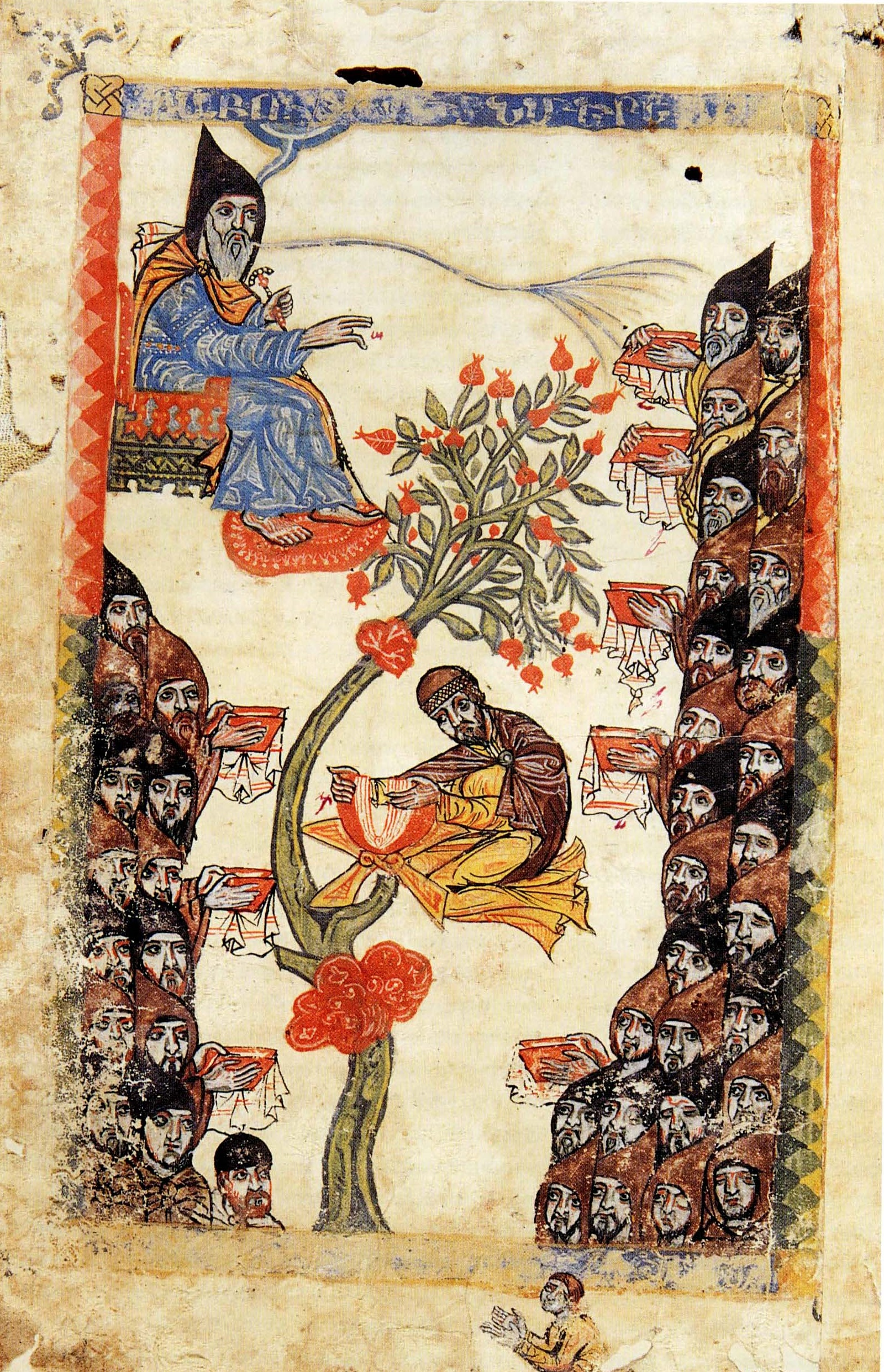 Archbishop Esayi Ntchetsi (c. 1255-1338), abbot of the University of Gladzor, teaching. From the Commentary an Isaiah by Gevork' vardapet, Skevra monastery, Cilicia, 1299. St James's Monastery, Jerusalem, ms. 365, f.2r.